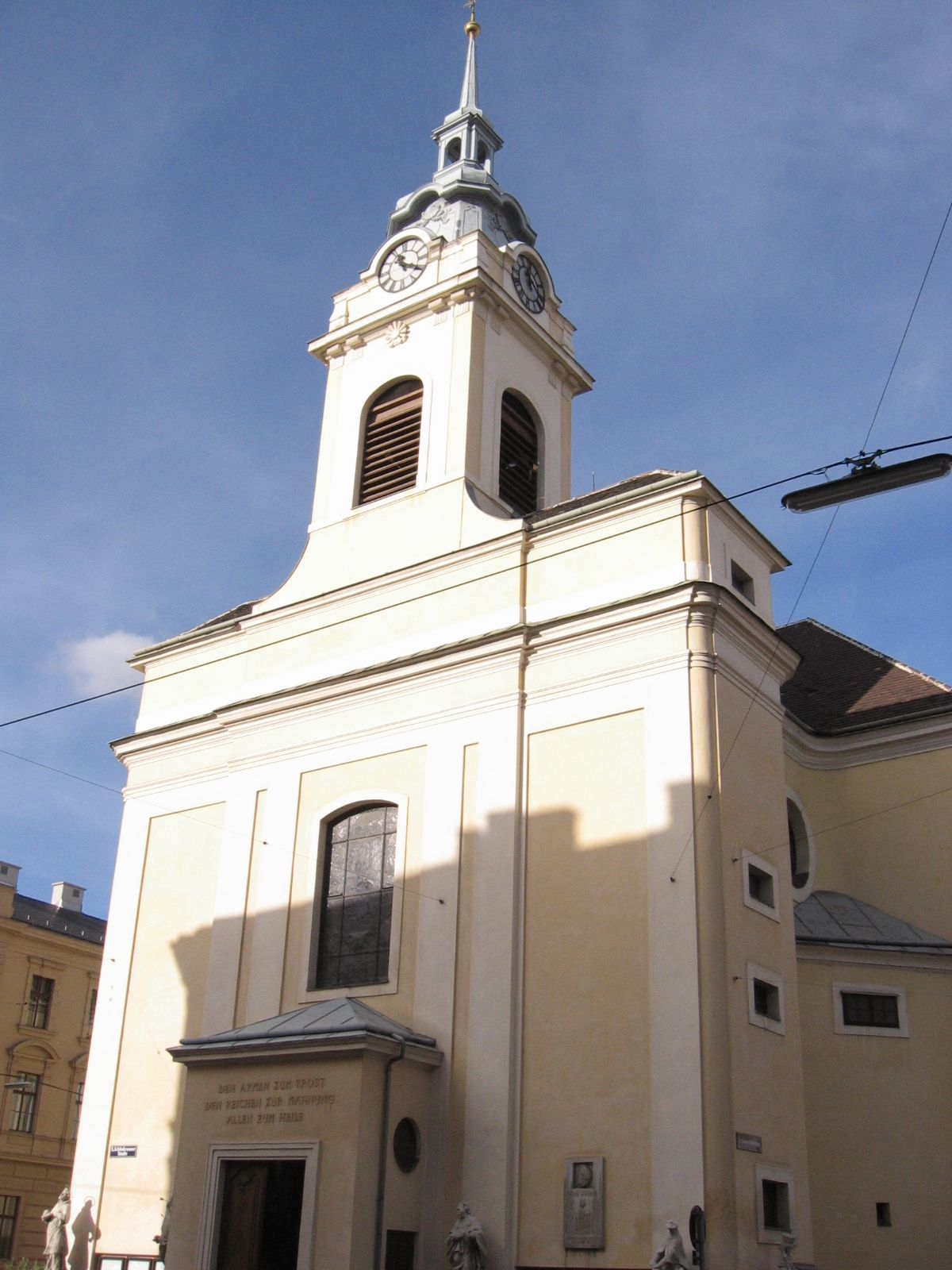 Church St.Josef